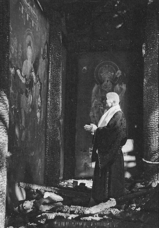 Kondo, Horyuji, 1949-01-26